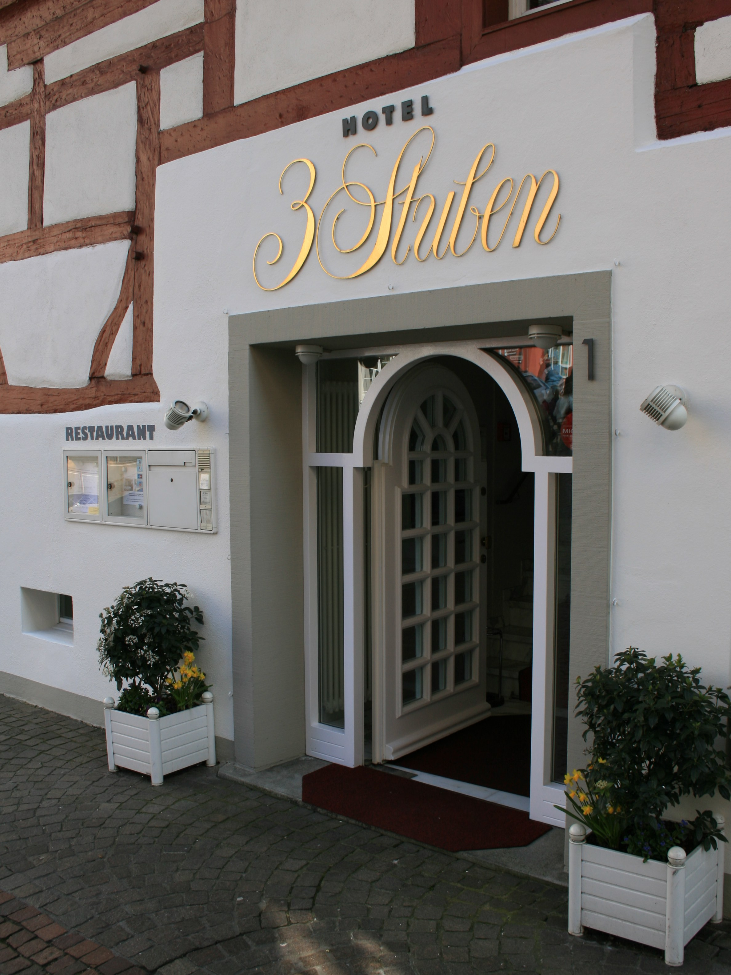 The Restaurant & Hotel "3 Stuben"